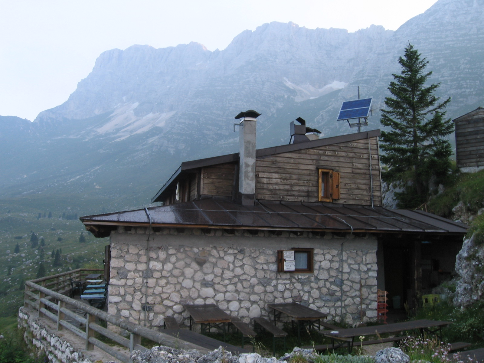 Alpine hut Giacomo di Brazza (1660 m), Italy